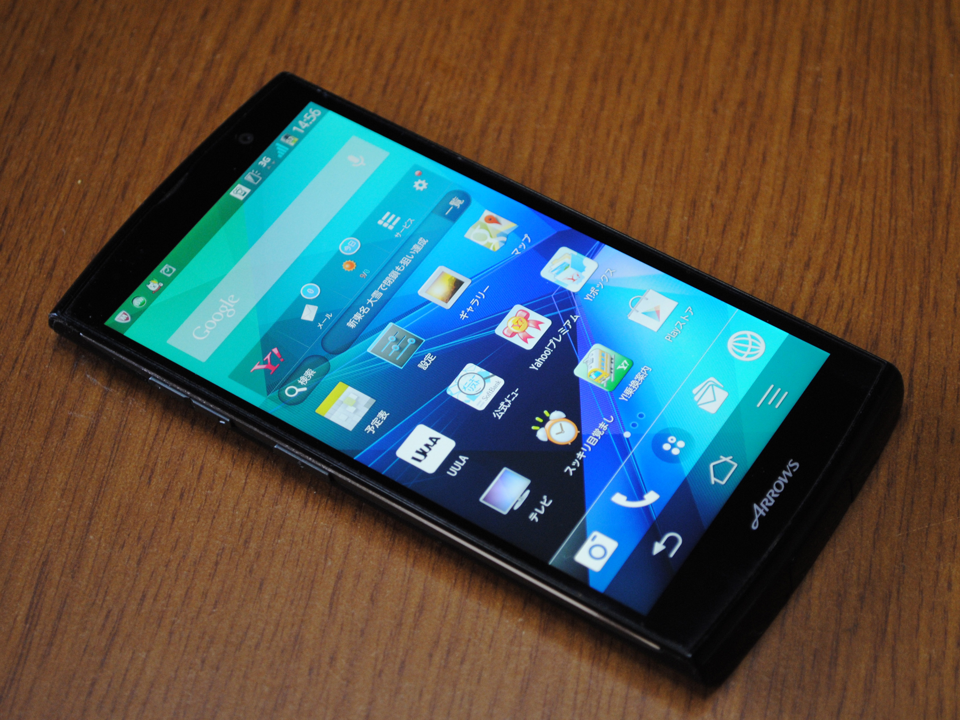 ARROWS A 202F SoftBank, by Fujitsu Mobile Communications Limited